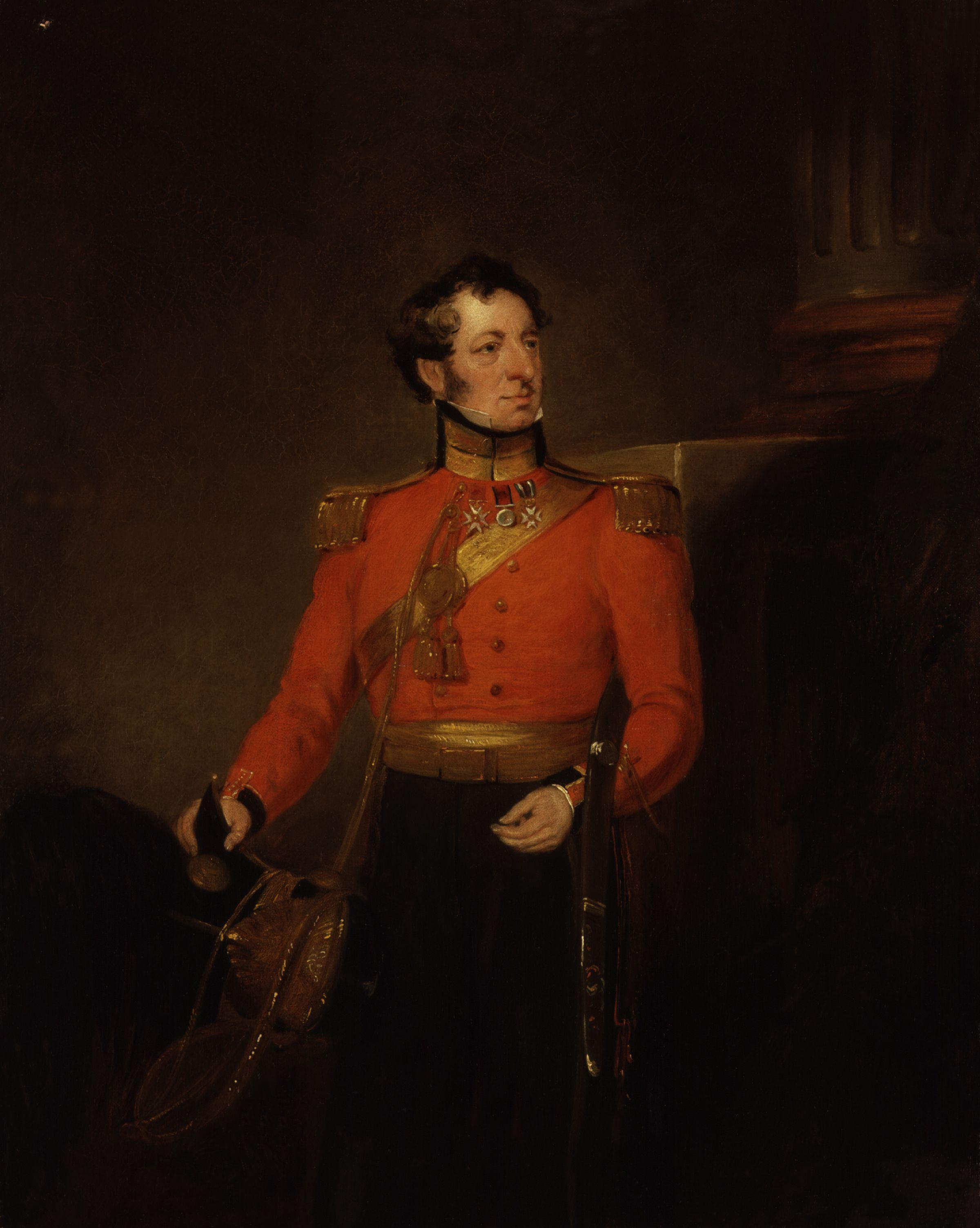 Sir James Wallace Sleigh, by William Salter (died 1875). All images in this batch have been confirmed as author died before 1939 according to the official death date listed by the NPG.